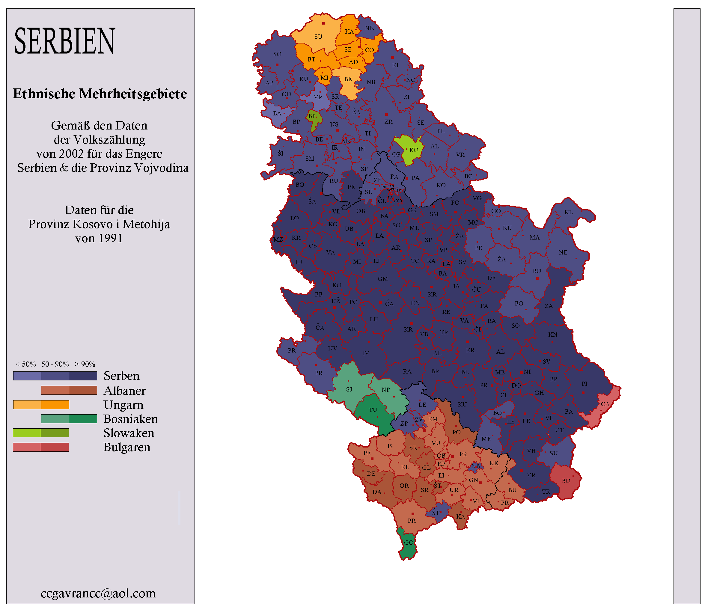 Peoples in Serbia (text in German).